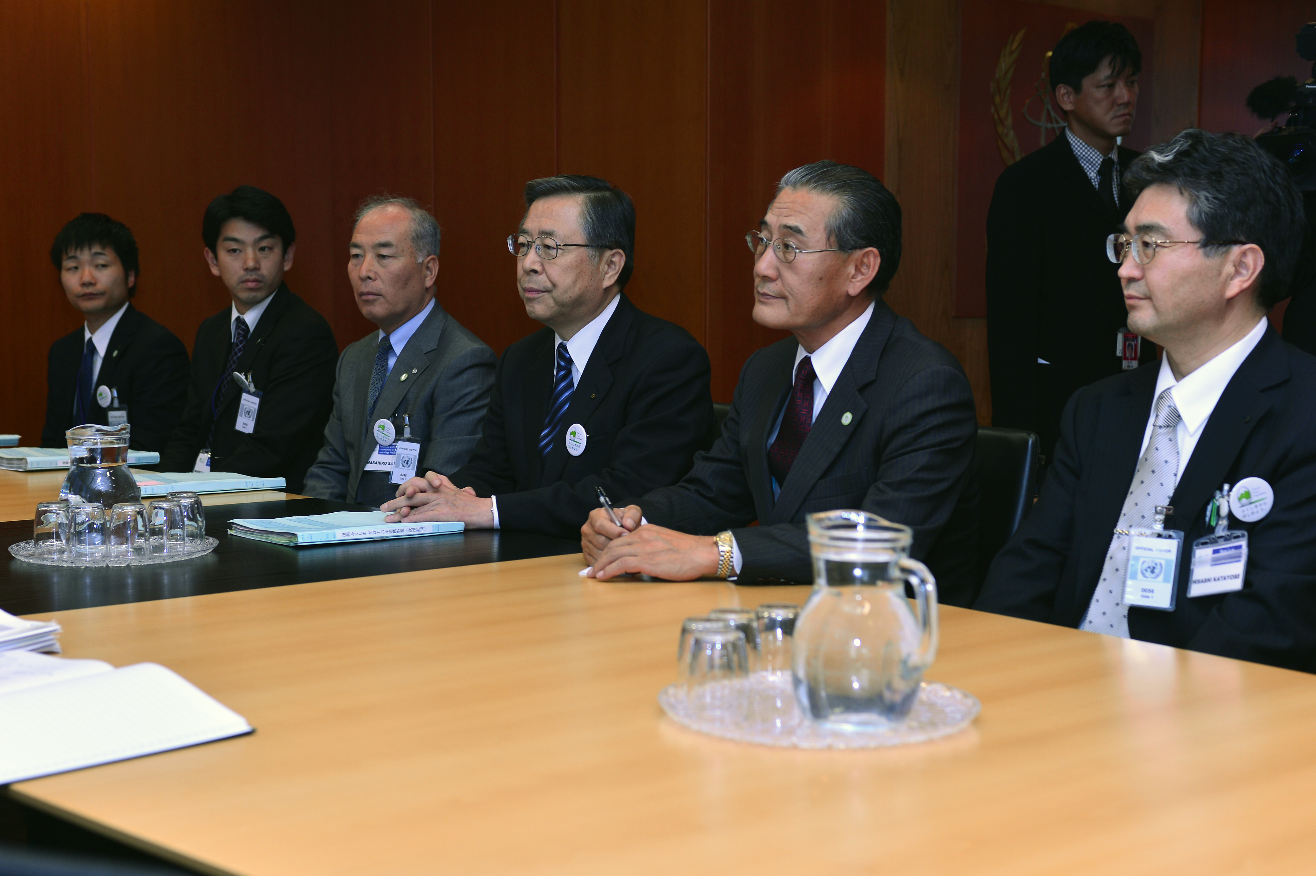 Yūhei Satō, Governor of Fukushima Prefecture, and Toshirō Ozawa, Ambassador to the International Organizations in Vienna, visited the International Atomic Energy Agency Headquarters in Vienna City, Vienna State on August 31, 2012.